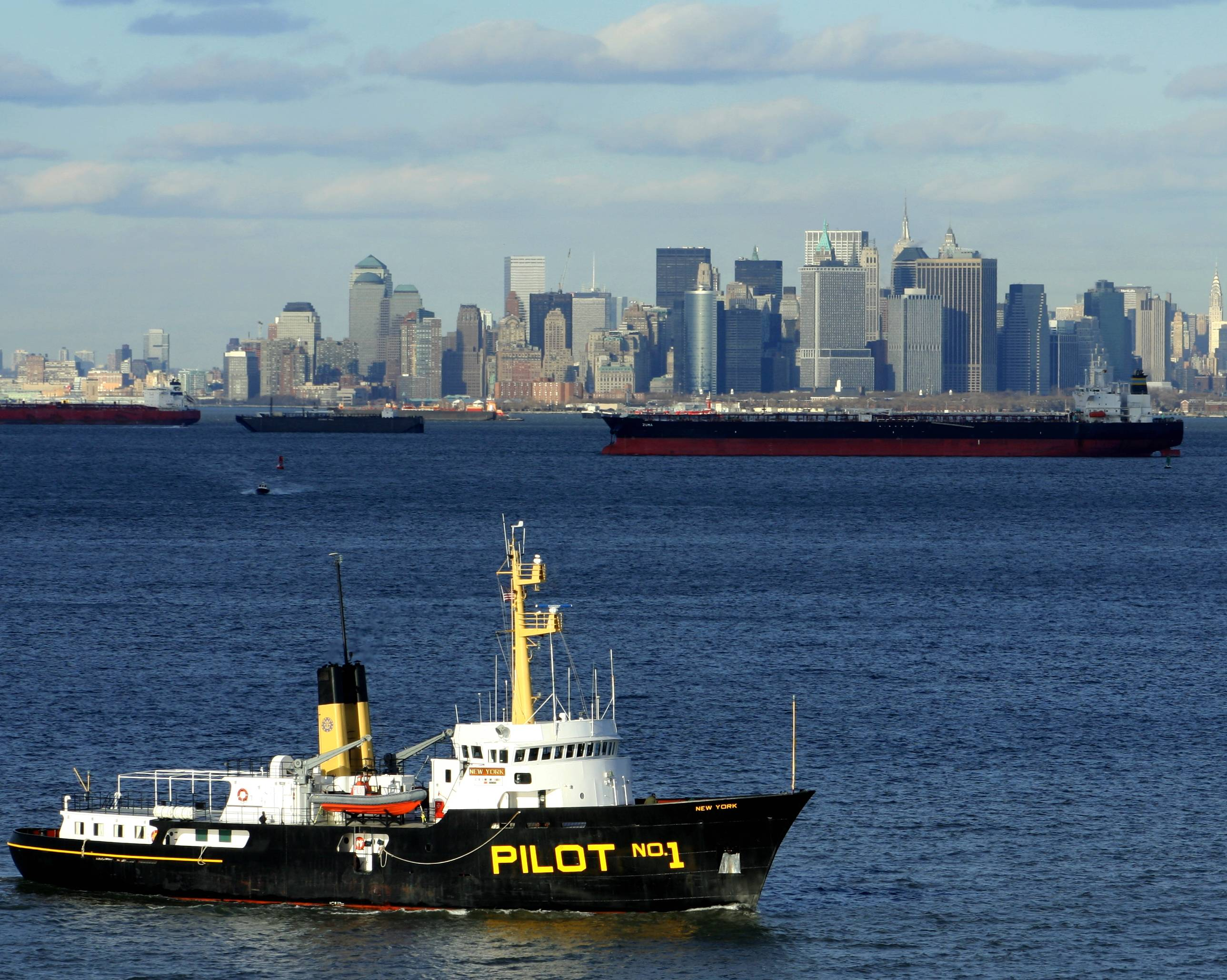 James Hanlon,"Pilot Boat", NYC Harbor, 2007.